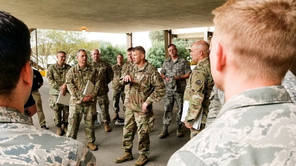 Army Lt. Gen. Jeffrey Buchanan, U.S. Army North Commander, speaks with Joint Forces Land Component personnel and U.S. Air Force attorneys at Lackland Air Force Base, Texas that are supporting Operation Faithful Patriot. OFP is the Department of Defense's support to the Department of Homeland Security and Customs and Border Protection in order to provide national security at the Nation’s southern border.